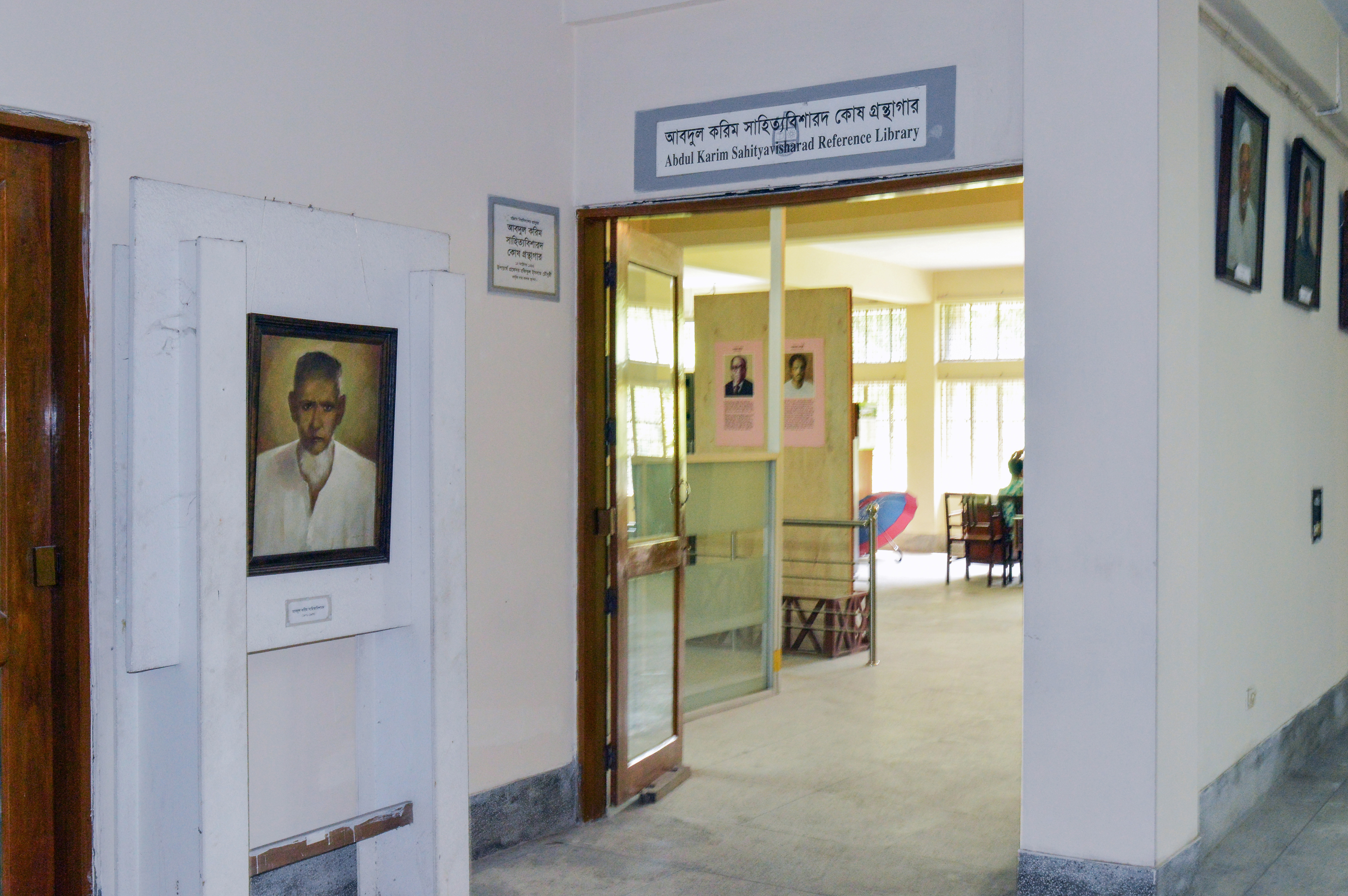 Entrance of Abdul Karim Sahityavisharad Reference Library, is a reference library which contents books to support research about iconography, architecture, small and folk art and other cultural resources located at the Chittagong University Museum.